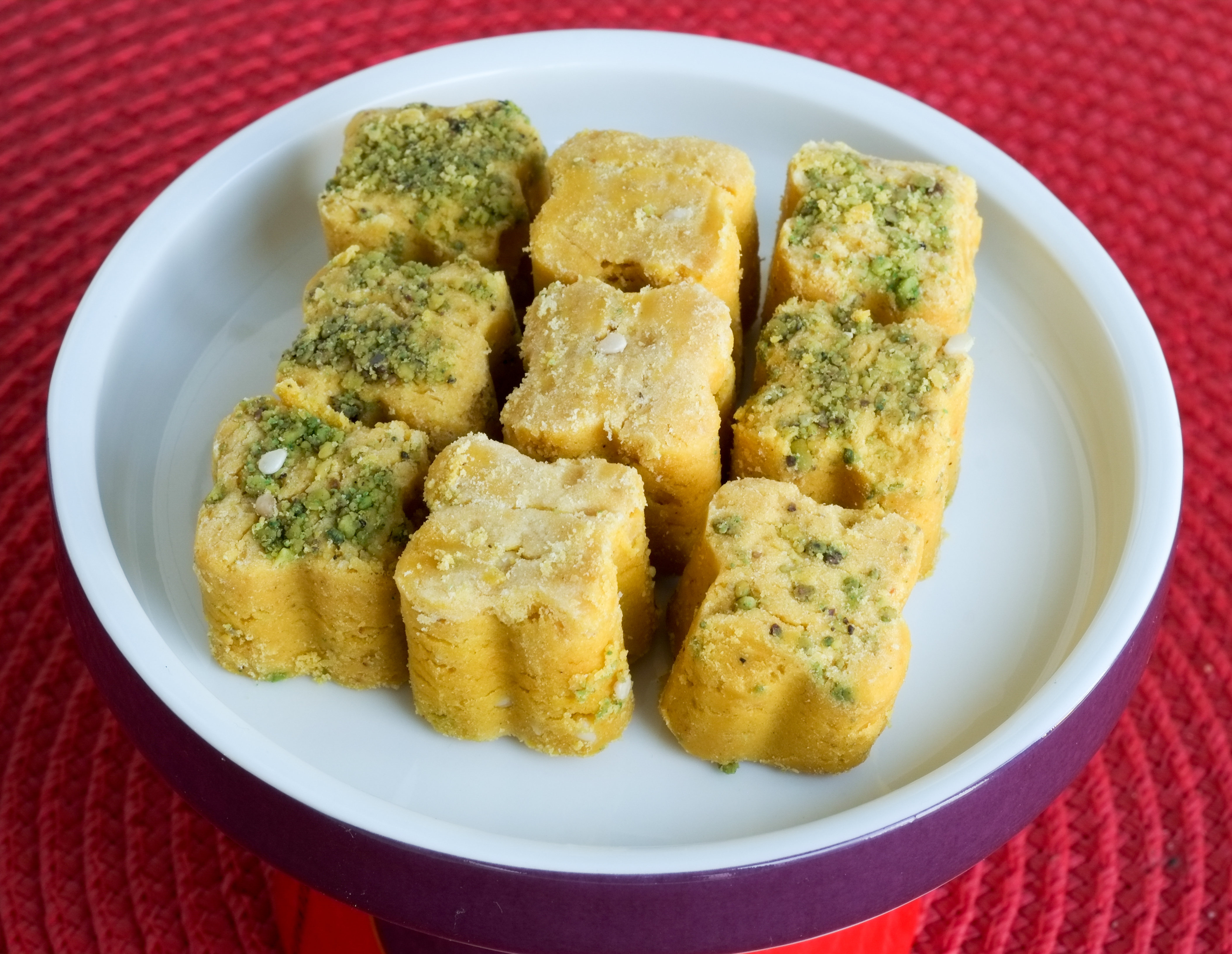 clover-shaped chickpea flour cookies